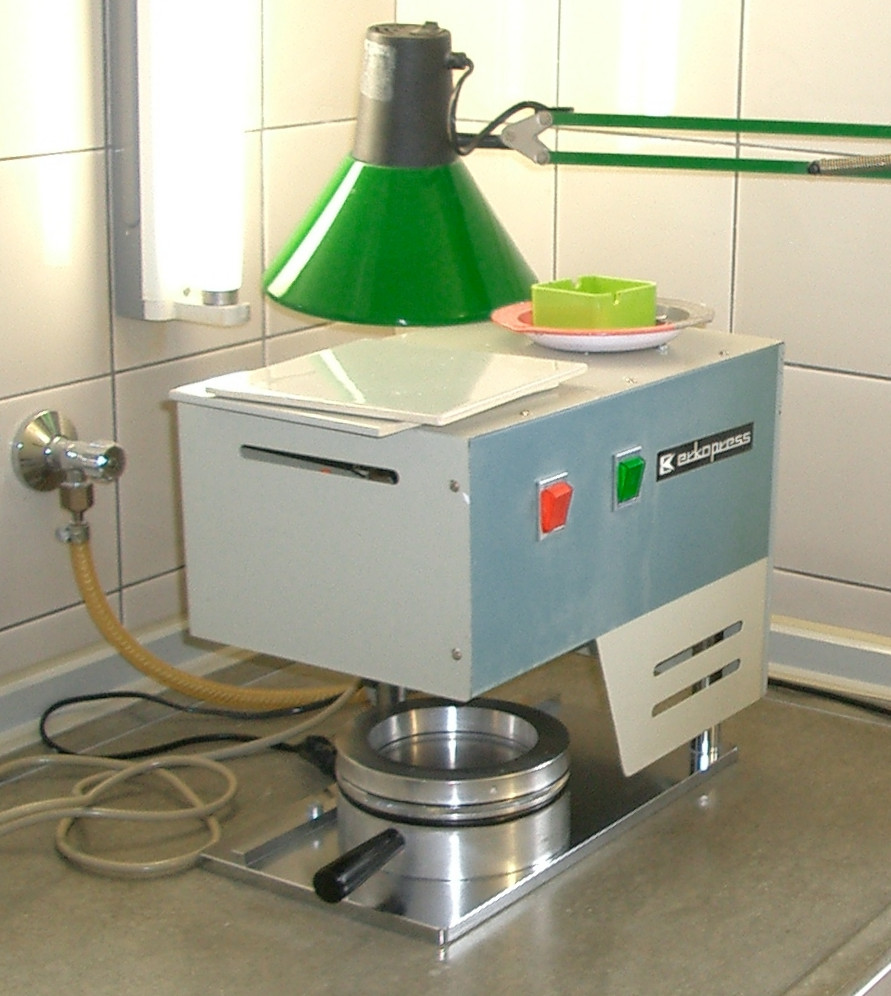 Deep drawing foil machine